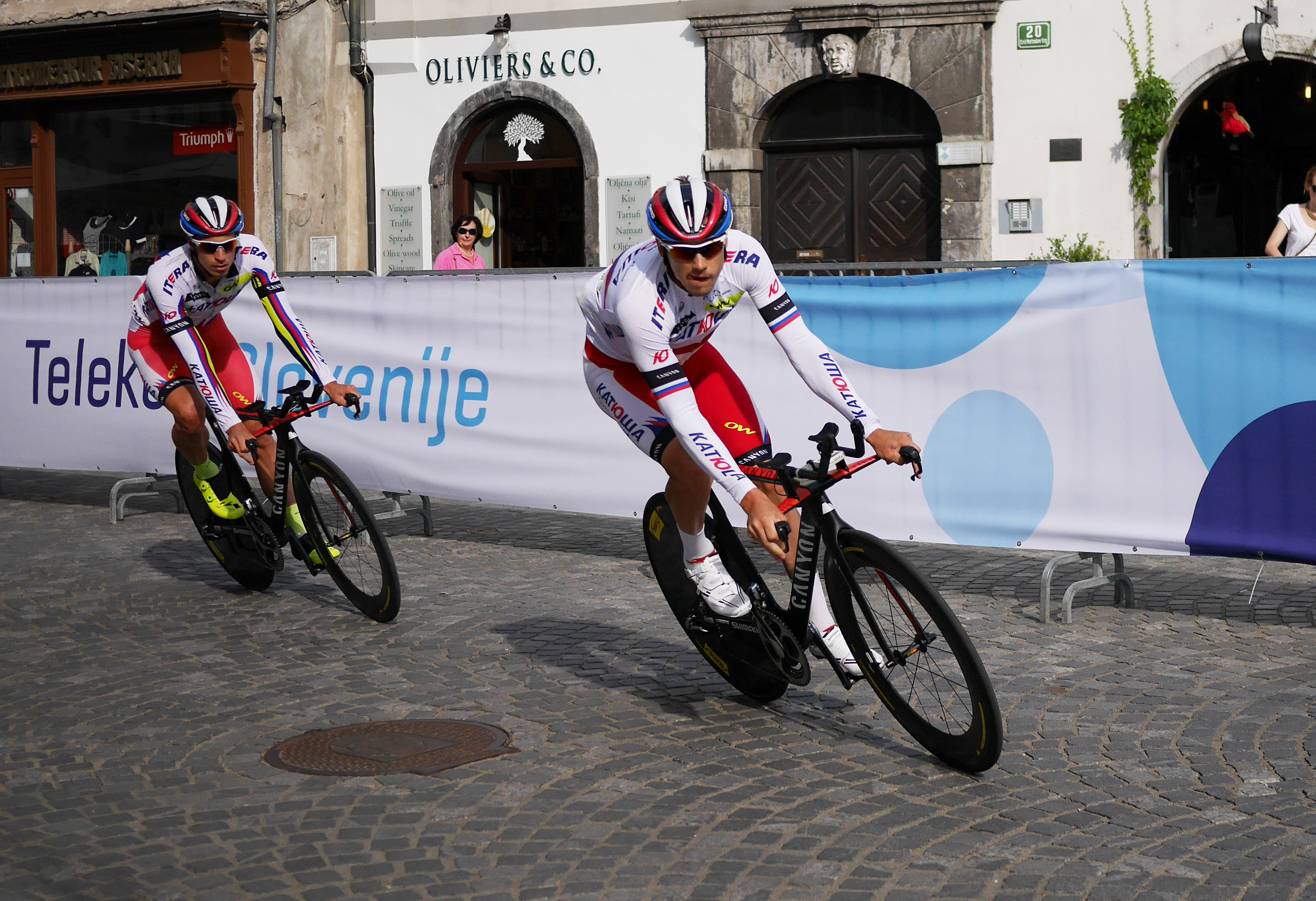 Russian team Katusha - 1st stage Tour of Slovenia 2015, Time trial on the streets of Ljubljana, Slovenia.